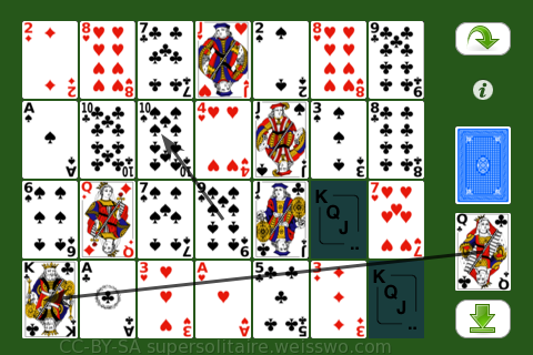 This picture shows how to play Pharaoh′s Grave (solitaire) that is a free cell type solitaire. The screenshot is from my pet project SuperSolitaire for the iPhone.